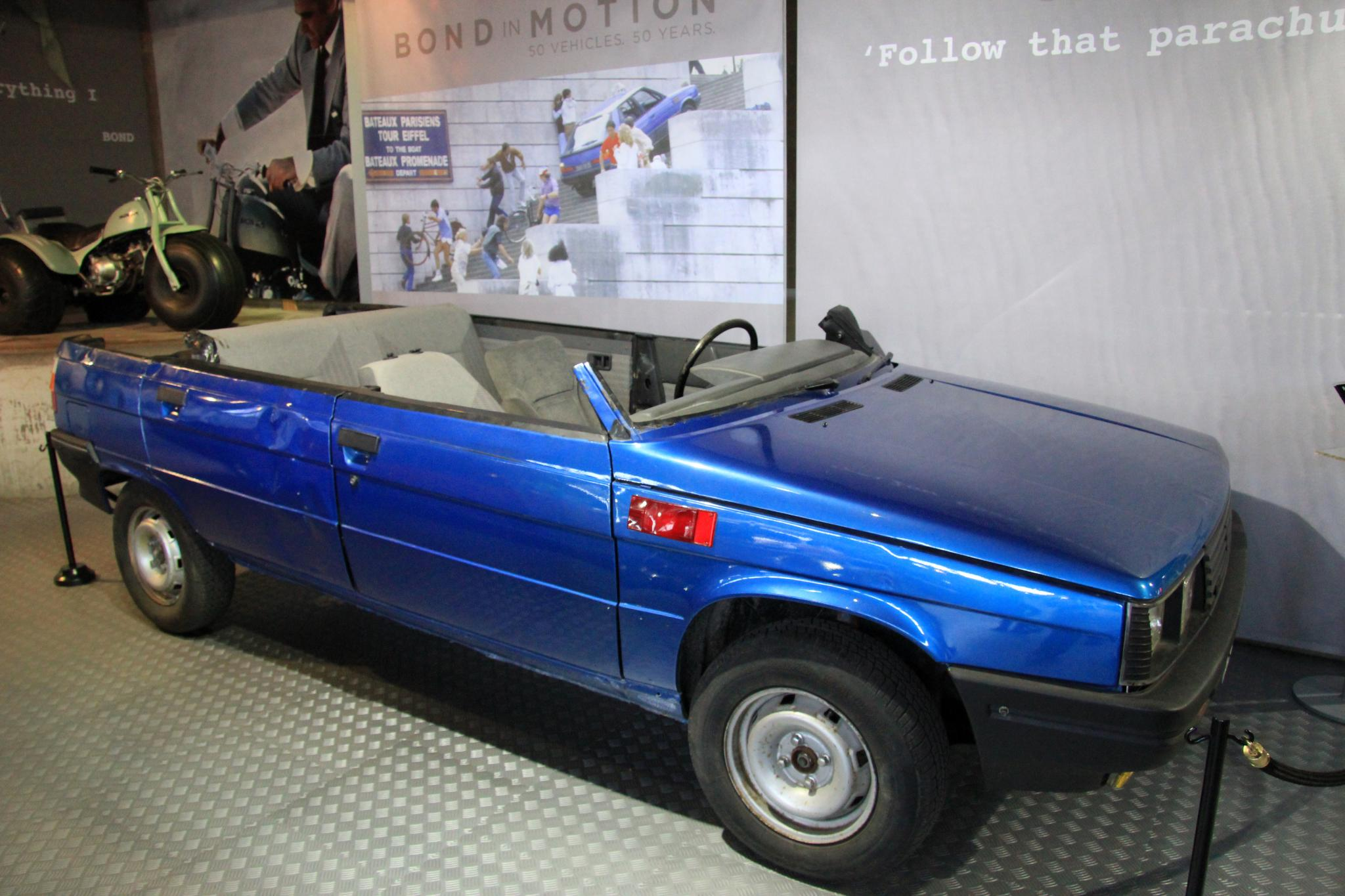 BOND in MOTION 50 Vehicles. 50 Years A View To A Kill - Roger Moore Renault 11 Taxi After commandeering a local Renault taxi in A View To A Kill, Bond races around the streets of Paris in pursuit of henchwoman, May Day. Fast-paced and exciting, Bond drives the car down stairs, under barriers and on top of buses. Along with way the taxi becomes a convertible which Bond continues to drive even after the rear end has been chopped off. The chase sequence was co-ordinated by famed French stuntman Remy Julienne. He used three vehicles for the stunt scenes; one complete, one with its roof removed and finally two halves of a taxi.